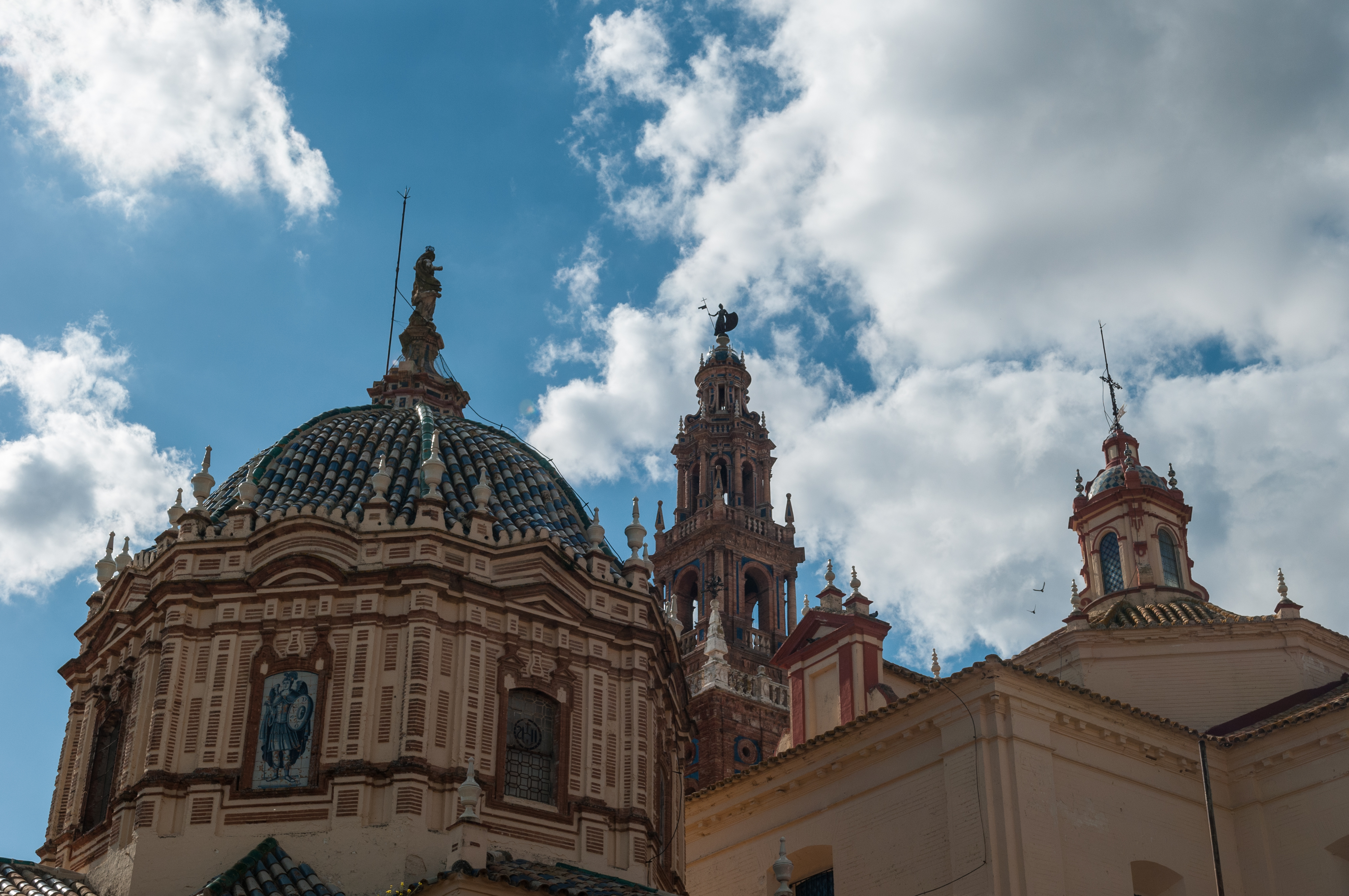 Carmona is a town of south-western Spain, in the province of Seville; 33 km north-east of Seville. Carmona is built on a ridge overlooking the central plain of Andalusia, to the north is the Sierra Morena, with the of peak of San Cristobal to the south. The city is known for its thriving trade in wine, olive oil, grain and cattle. The city also holds an annual fair each April. Carmona, Spain. (2012, January 7). In Wikipedia, The Free Encyclopedia. Retrieved 22:28, April 14, 2012, from